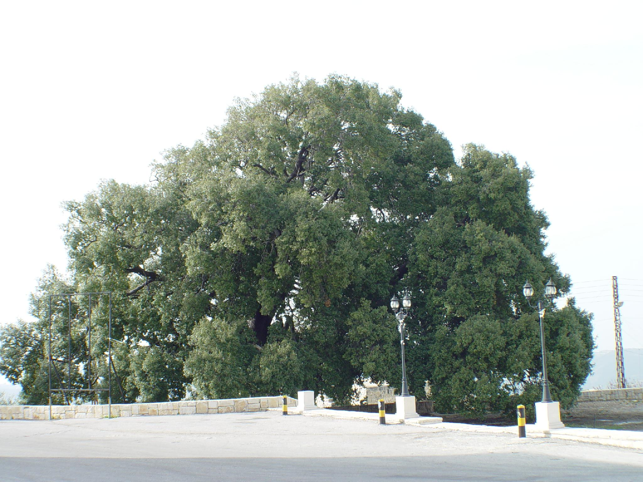 This is not a forest. this is the whole tree. 1500 years old